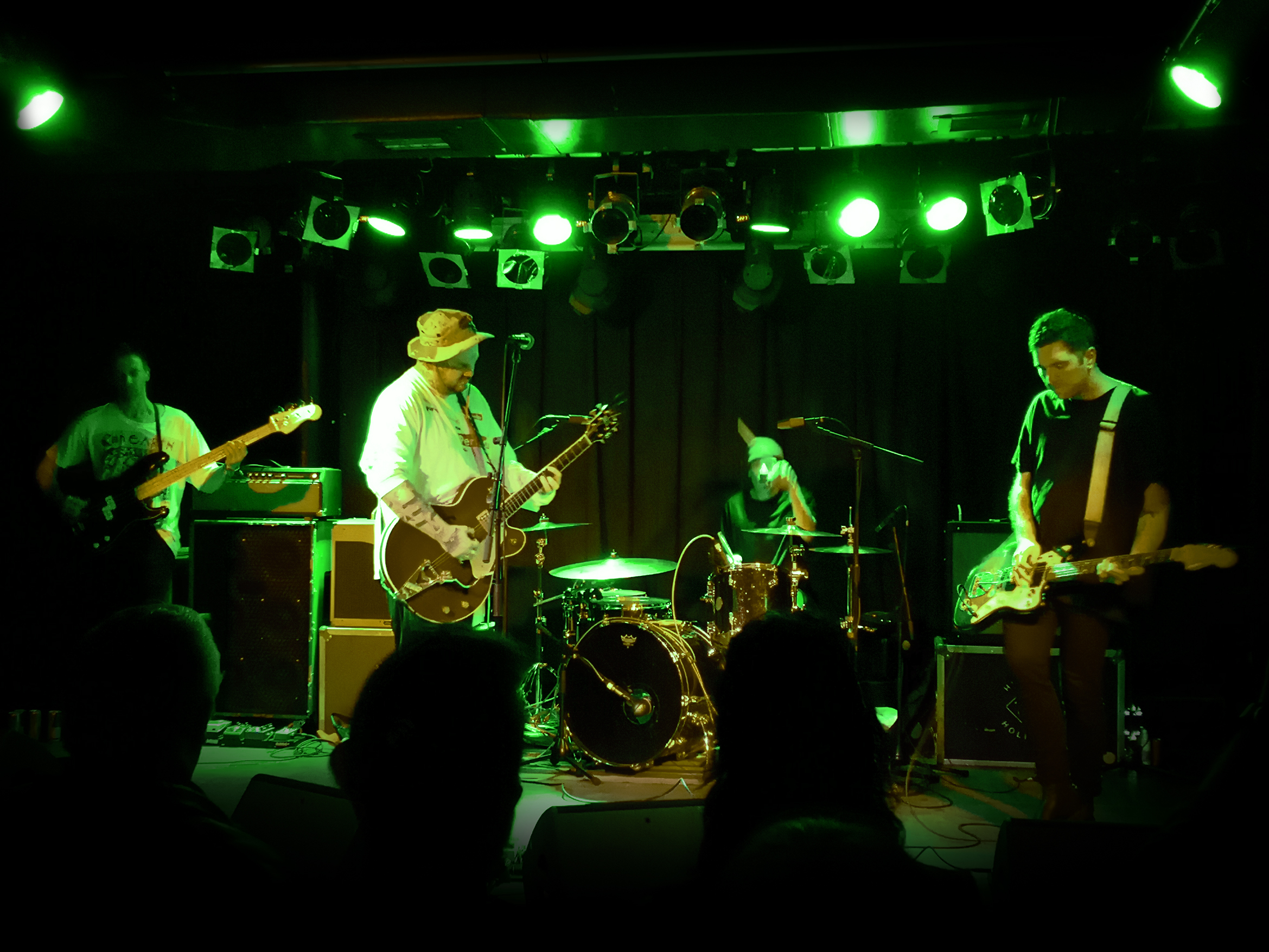 American band, Soft Kill (post-punkers) in their gig in Barcelona (Spain). Razzmatazz (Sala 3).